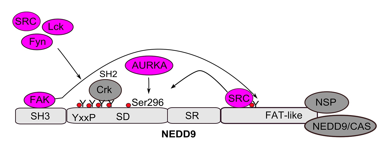 Schematic of defined domains of NEDD9, including SH3, unstructured substrate domain (SD), serine rich (SR) four- helix bundle domain, and C-terminal focal adhesion targeting (FAT) domain containing a Src-binding region (SB). Diagram indicates some (not all) defined interactors with NEDD9, proximal to defined association motifs. These include the kinase FAK, which binds the SH3 domain. The SD contains multiple YxxP motifs, which are phosphorylated by Src-family kinases such as Fyn, Lck and Src to create binding sites for proteins with SH2 domains, such as Crk. Kinase Aurora-A binds NEDD9 and phosphorylates serine 296 in the SD, supporting mitotic activities. The FAT-like domain interacts with NSP and other proteins, and contributes to NEDD9 targeting to focal adhesions.